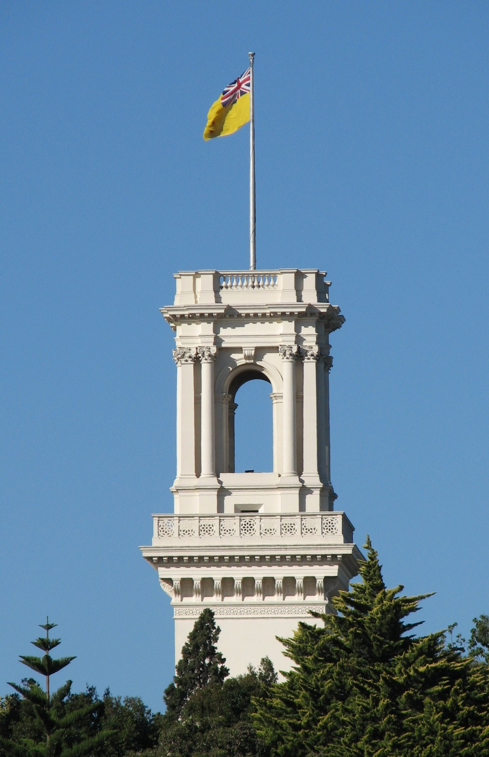 Government House, Melbourne, Australia